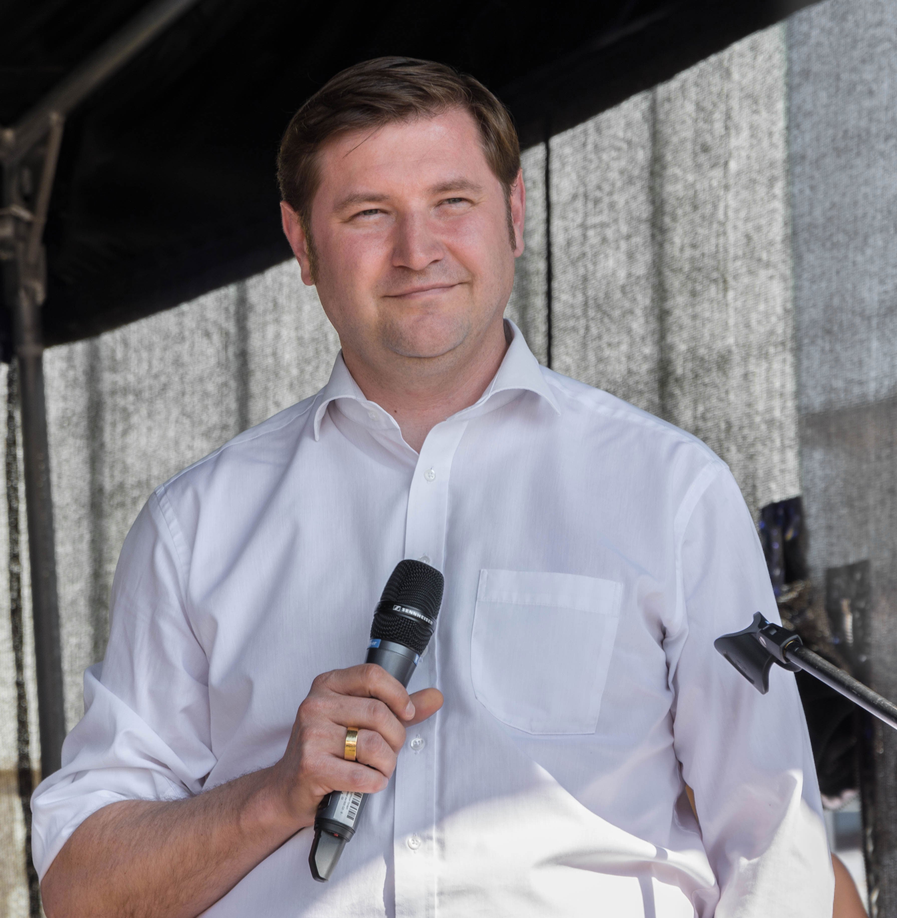 Tim Kurzbach, mayor of Solingen, speaking at the opening of a large urban flea market.